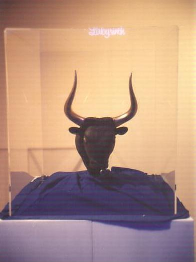 A minotaur mask at the Greek pavillion of Expo 88.